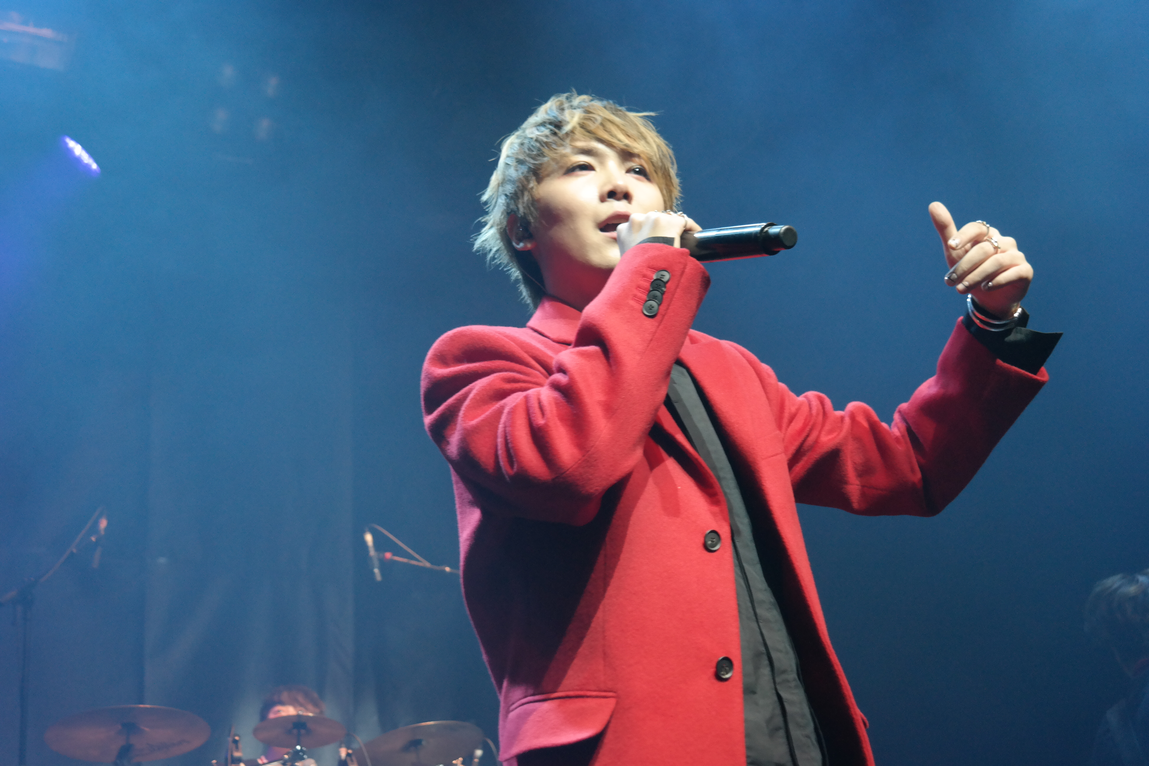 FTISLAND in Paris, La Cigale